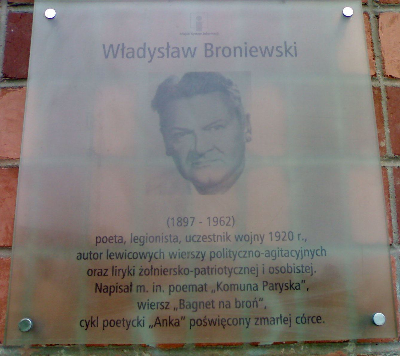 a memorial plaque devoted to Władysław Broniewski